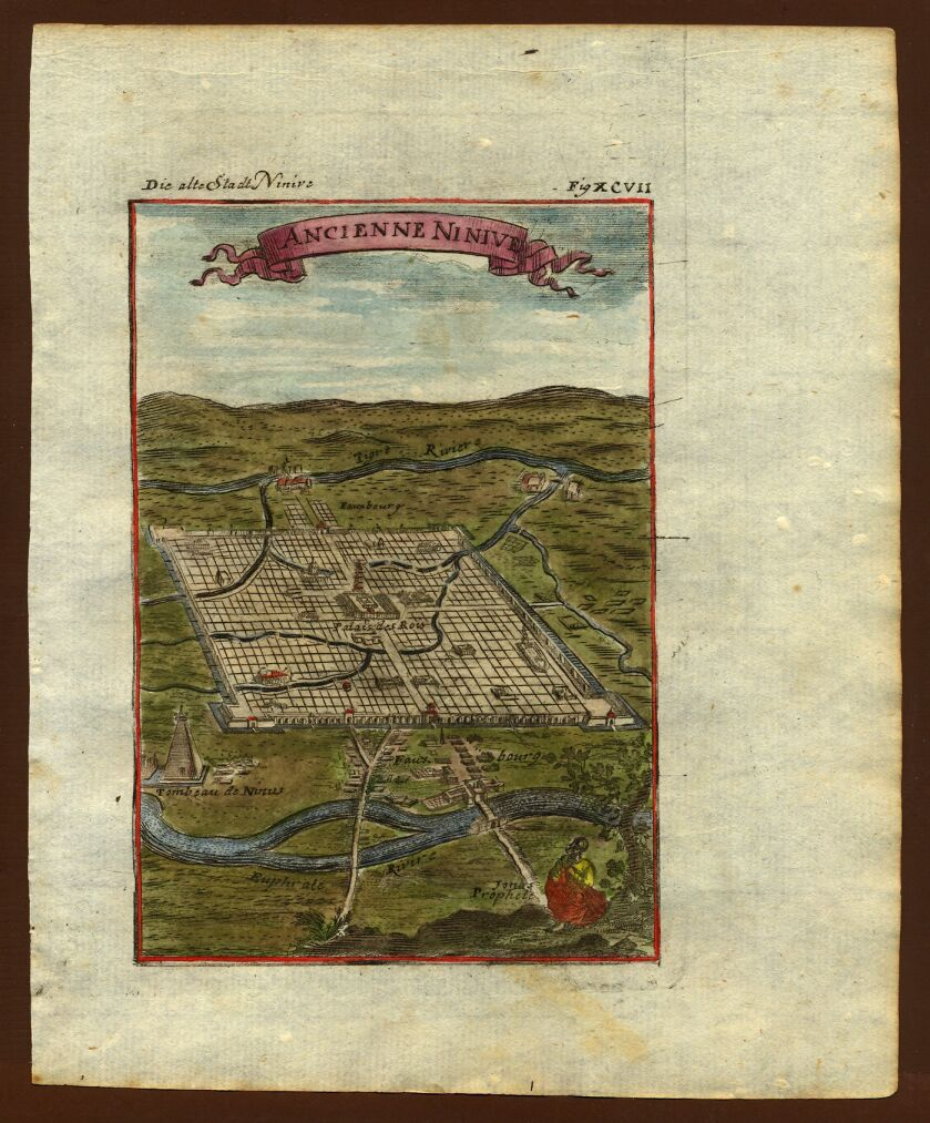 View of ancient Nineveh, Description de L'Universe (Alain Manesson Mallet, 1719).jpg